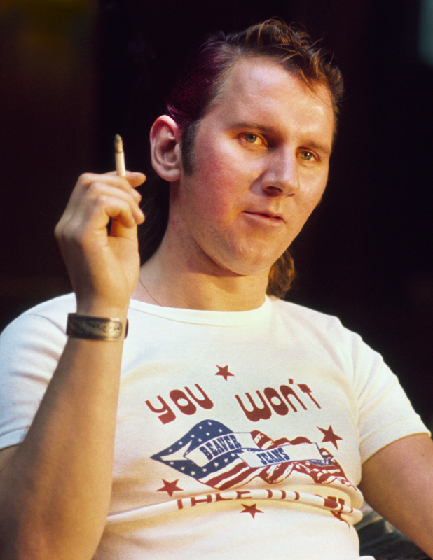 Cisse Häkkinen, the bass player of Finnish rock band Hurriganes.